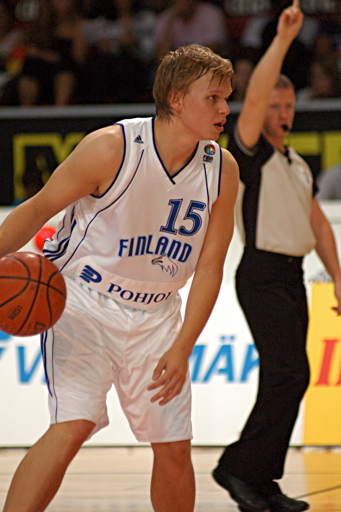 Teemu Rannikko playing for the Finnish National team on September 3rd 2006 in Helsinki (Finland - Austria)